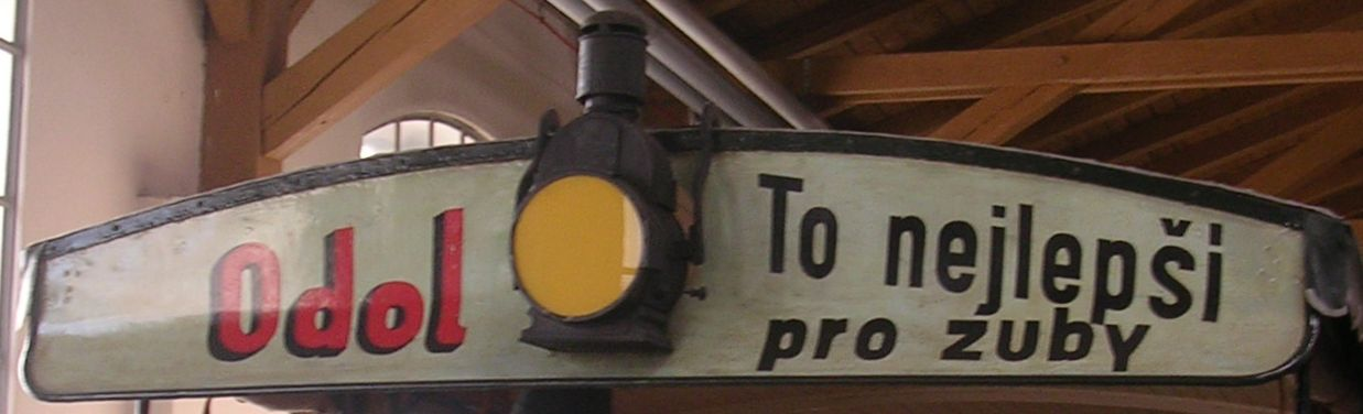 Střešovice, Prague, the Czech Republic. A horse tram car.